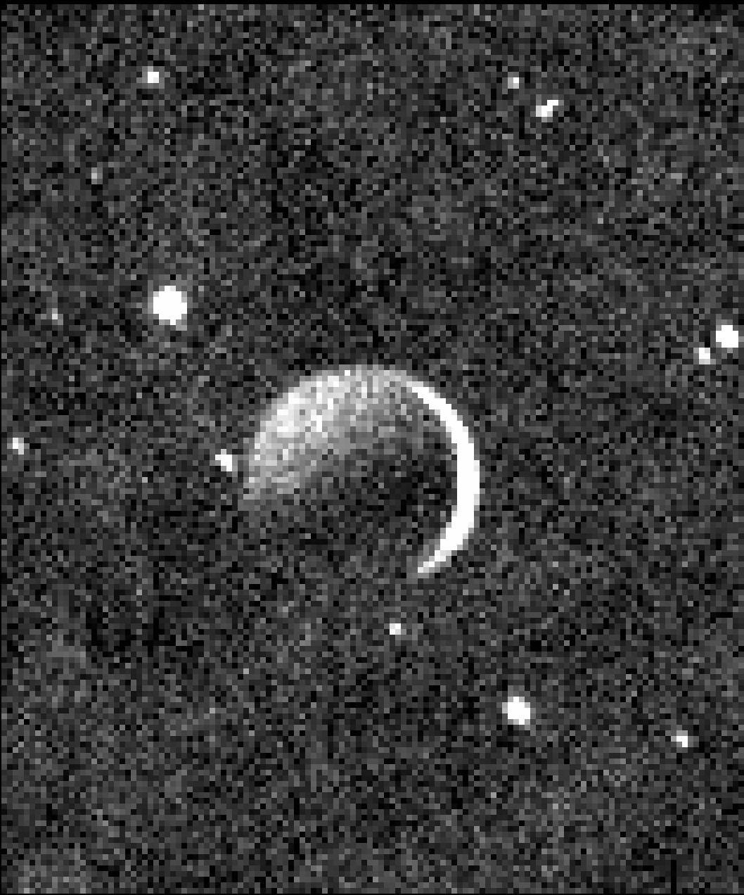 This beautiful image obtained with the Ralph/Multispectral Visible Imaging Camera aboard NASA's New Horizons spacecraft shows the night side of Pluto's large, Texas-sized moon Charon, against a star field, lit by faint, reflected light from Pluto itself. The bright crescent on Charon's right side is a sliver of sunlit terrain; it is overexposed. New Horizons was already about 100,000 miles (150,000 kilometers) beyond Pluto when the image was taken on July 15, 2015. The Johns Hopkins University Applied Physics Laboratory in Laurel, Maryland, designed, built, and operates the New Horizons spacecraft, and manages the mission for NASA's Science Mission Directorate. The Southwest Research Institute, based in San Antonio, leads the science team, payload operations and encounter science planning. New Horizons is part of the New Frontiers Program managed by NASA's Marshall Space Flight Center in Huntsville, Alabama.